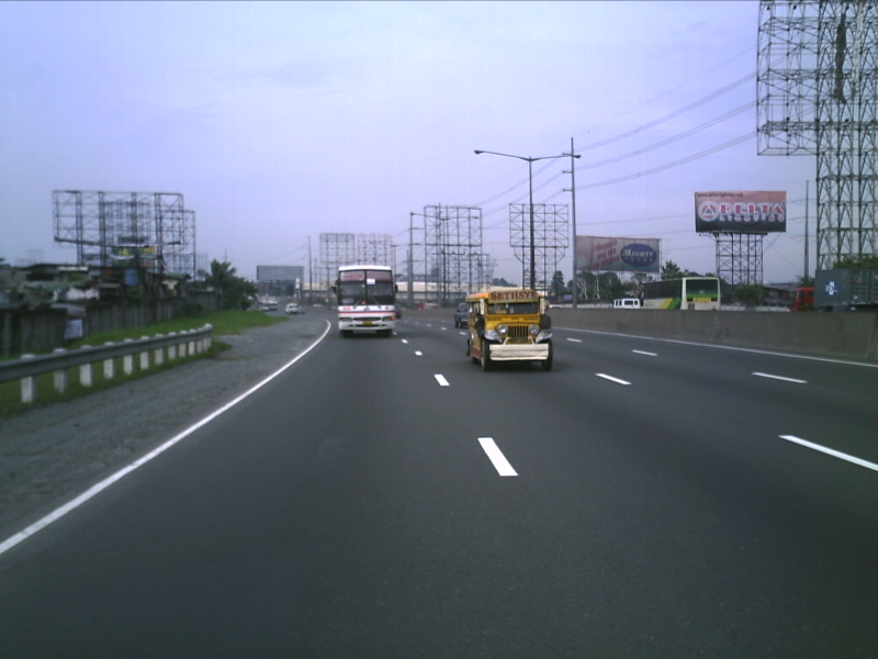 The North Luzon Expressway with 8 lanes traversing Valenzuela City southbound heading to Caloocan City and Quezon City.